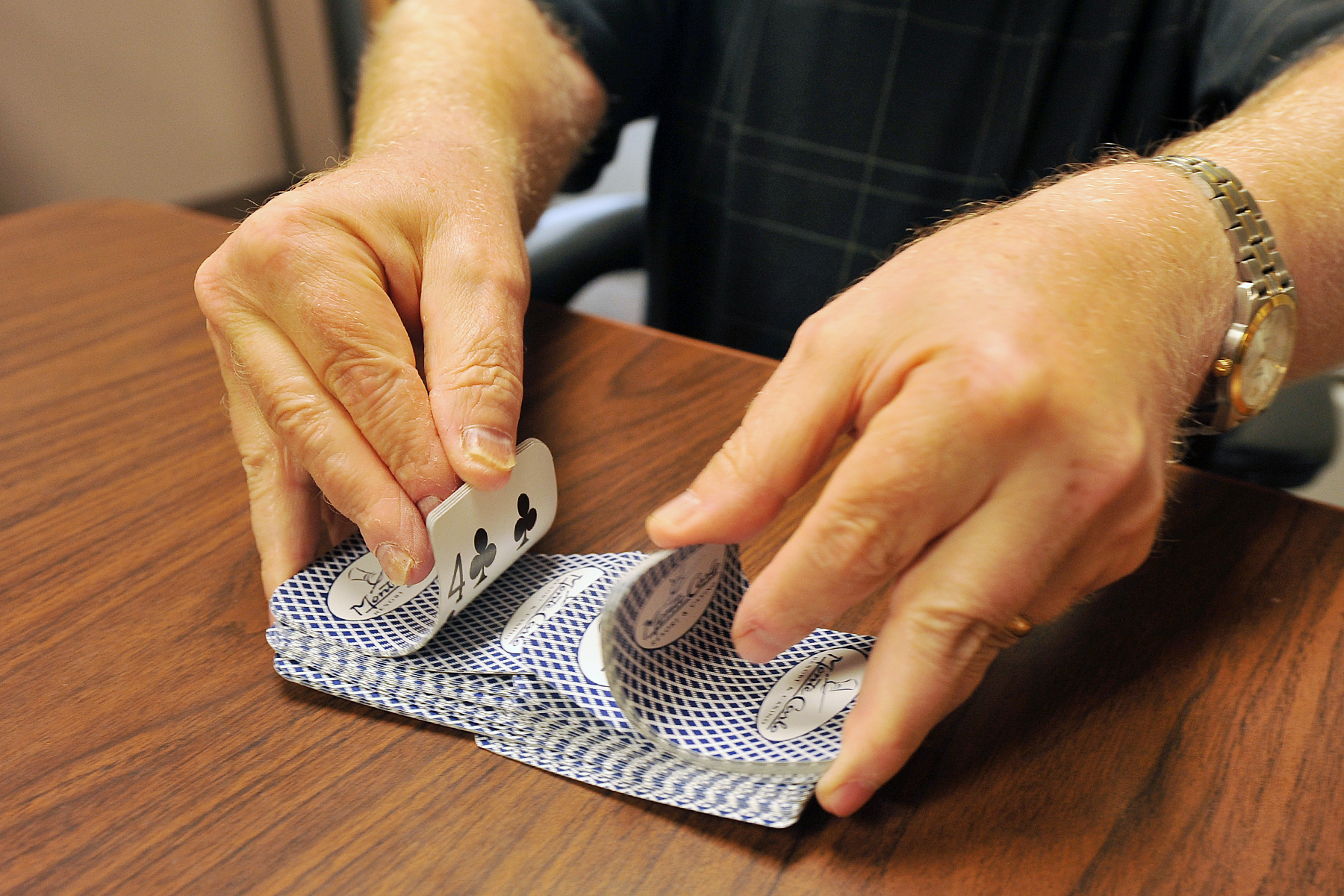 U.S. Air Force civilian Pierre Flatowicz, 55th Force Support Squadron, shuffles a deck of cards inside Building C on Offutt Air Force Base, Neb., Sept. 13. Flatowicz best finish in a national tournament was second place but will compete again for the National Tournament championship in St. Louis in March 2013.